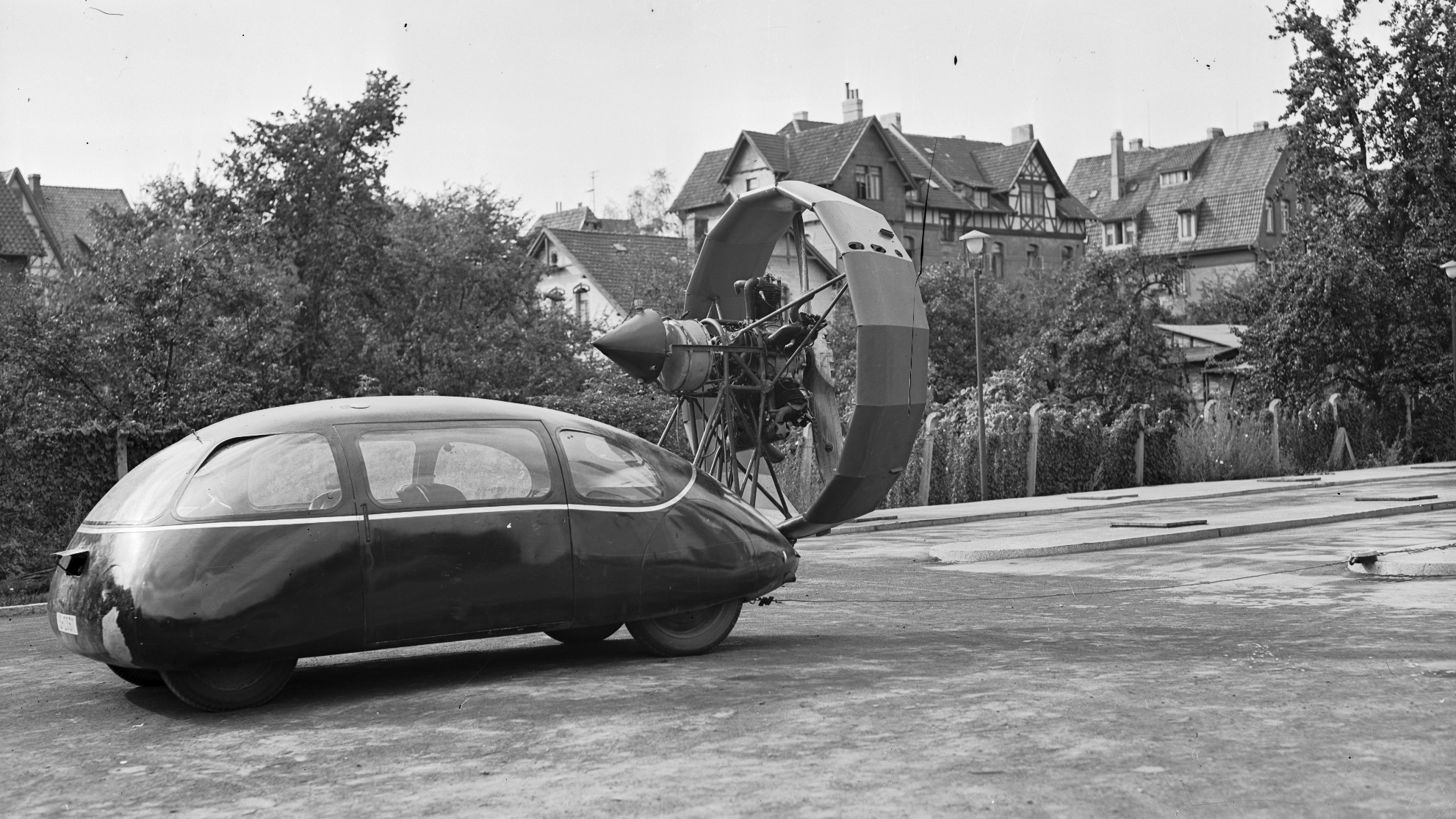 Test drive with a Russian aircraft power unit The outbreak of the Second World War stopped any plans for the development of cars. In 1942, the Schlörwagen was equipped with a 130 horsepower aircraft power unit captured from the Russians. This unusual design created quite a stir during a test run in Göttingen.